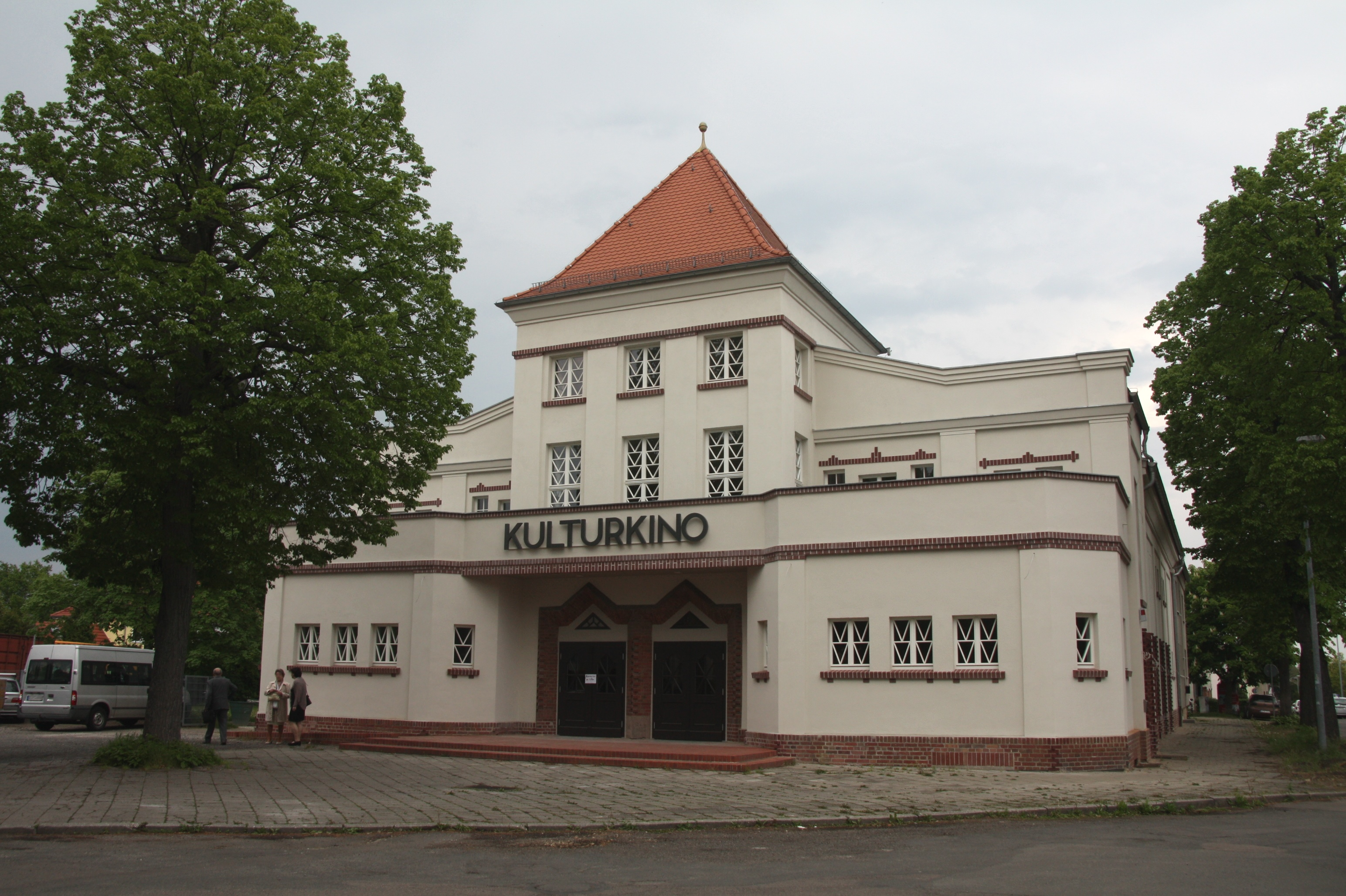 cinema Zwenkau after reconstruction